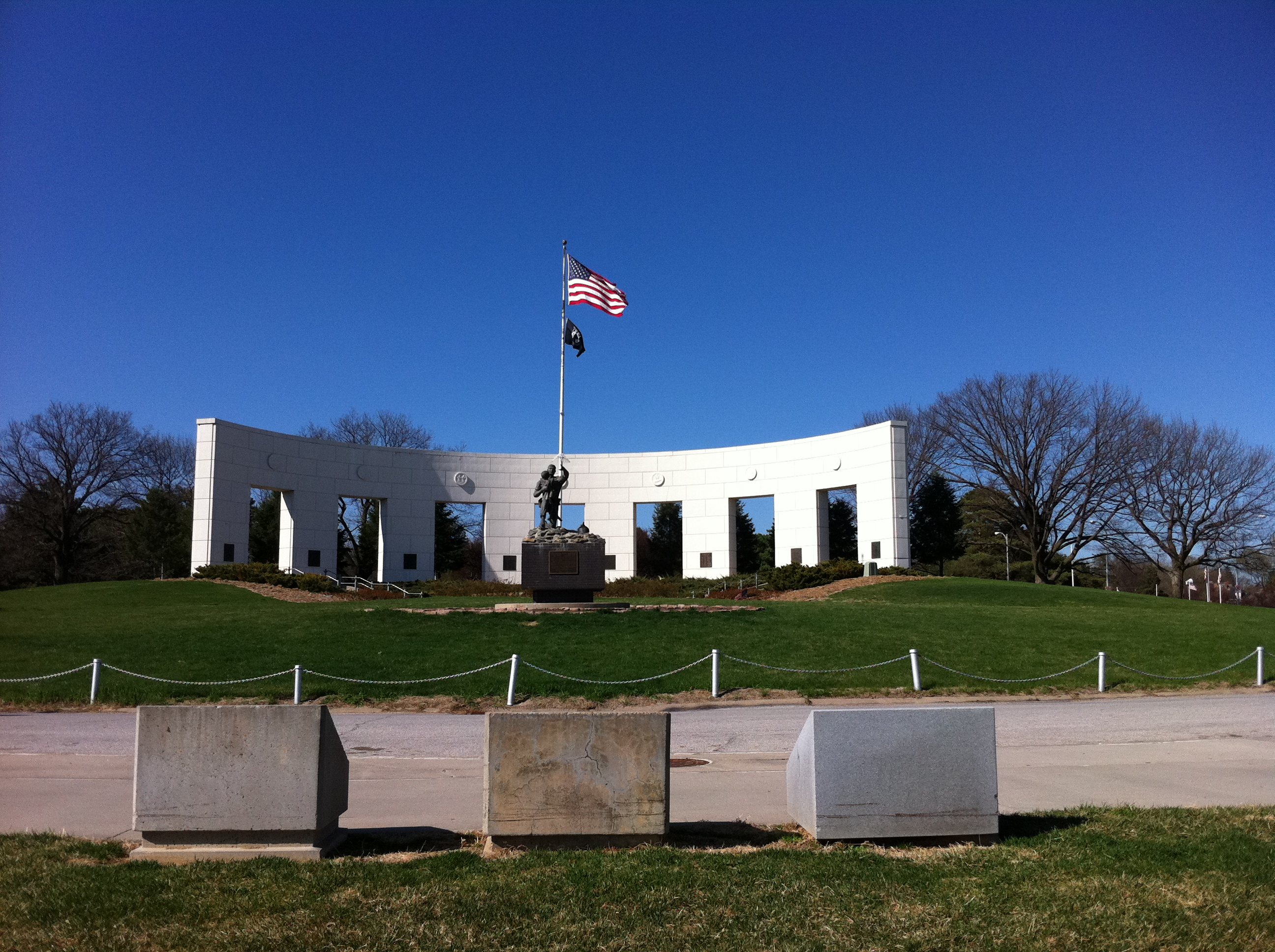 Memorial_Park_Omaha_April_2011